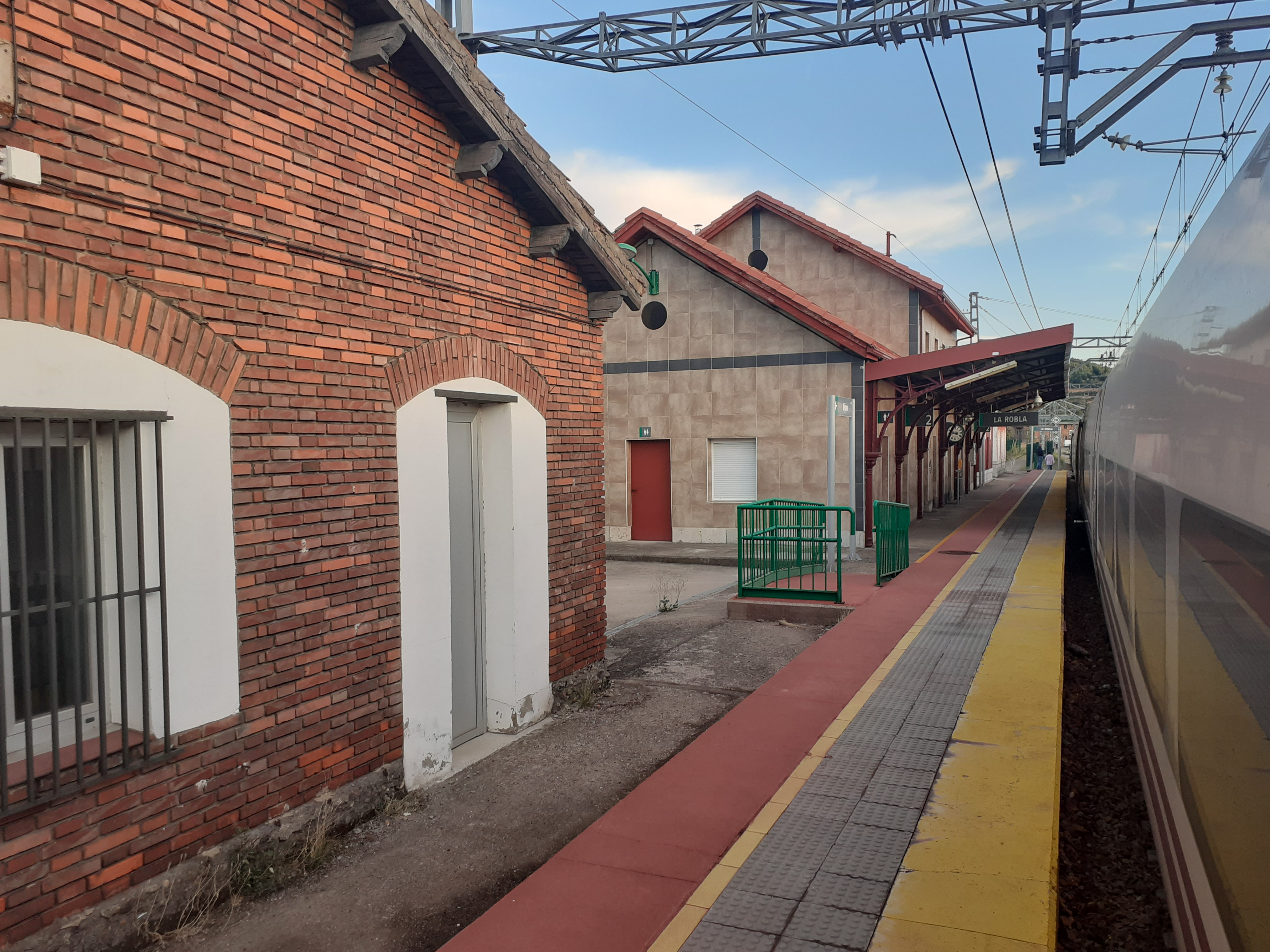 La Robla station, Spain